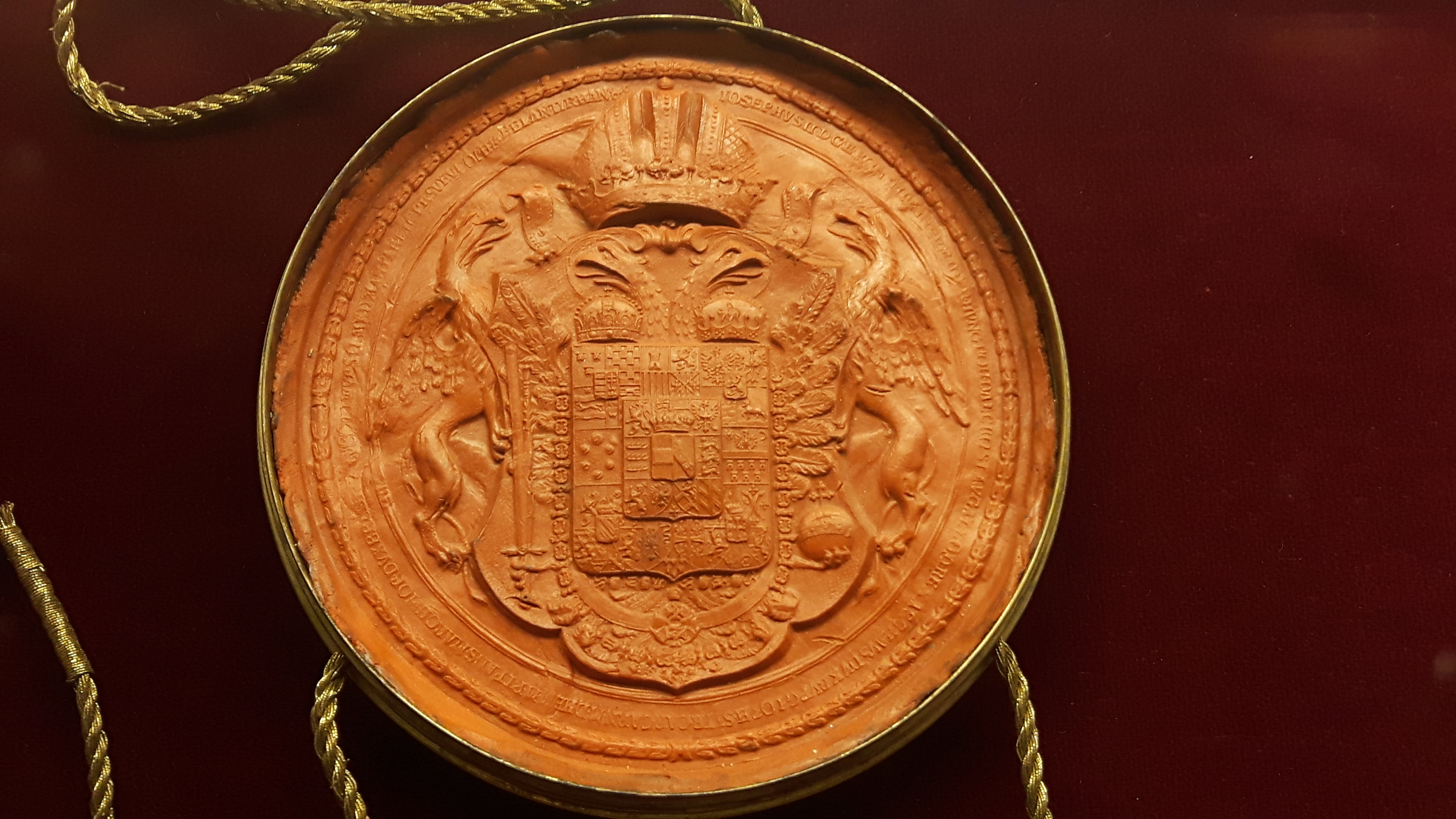 Stamp of the Greater Coat of Arms of Joseph II, Holy Roman Emperor, conserved in the Jewish Museum in Prague.